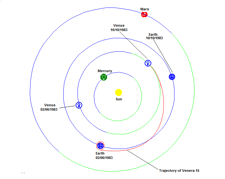 Trajectory of Venera 15 space probe launched by Soviet Union in 1983 to Venus.